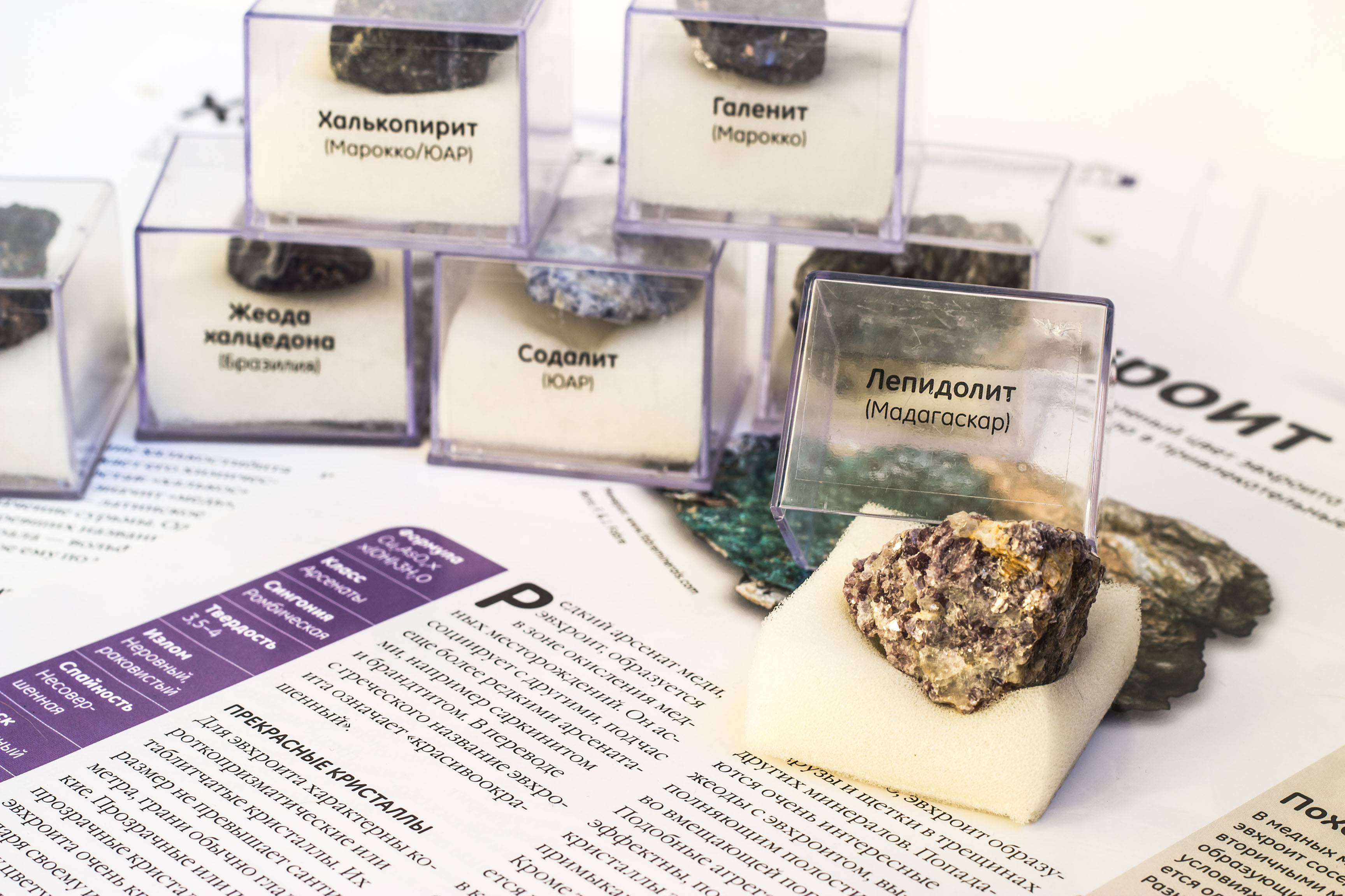 Переводчик Mineralogy studying the composition, properties, structure and conditions of formation of minerals.